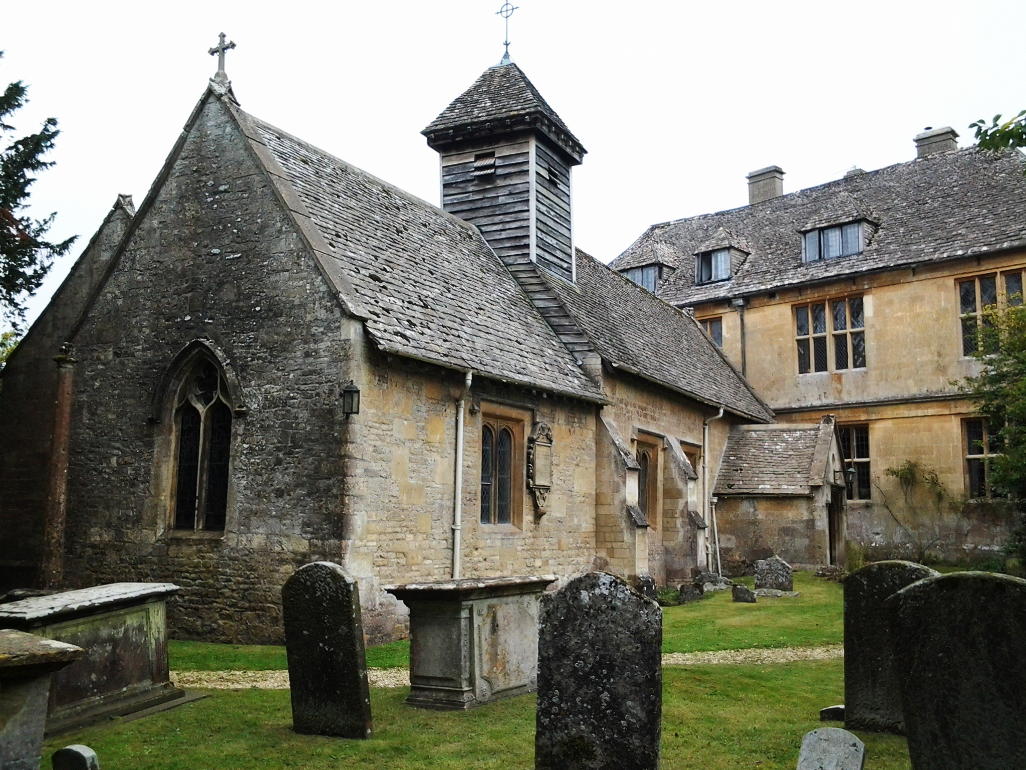 St Bartholomew's parish church, Whittington, Gloucestershire, seen from the northeast